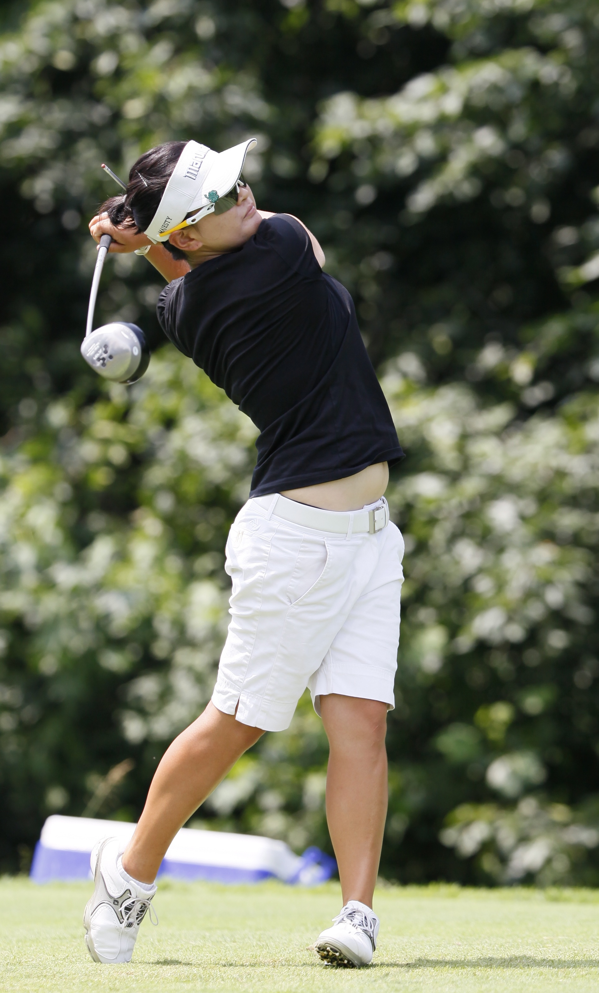 HAVRE DE GRACE, MD - JUNE 10: Eunjung Yi (KOR) during practice round before 2009 LPGA Championship held at Bulle Rock Golf Course, on June 10, 2009 in Havre de Grace, Maryland. (Photo by Keith Allison)